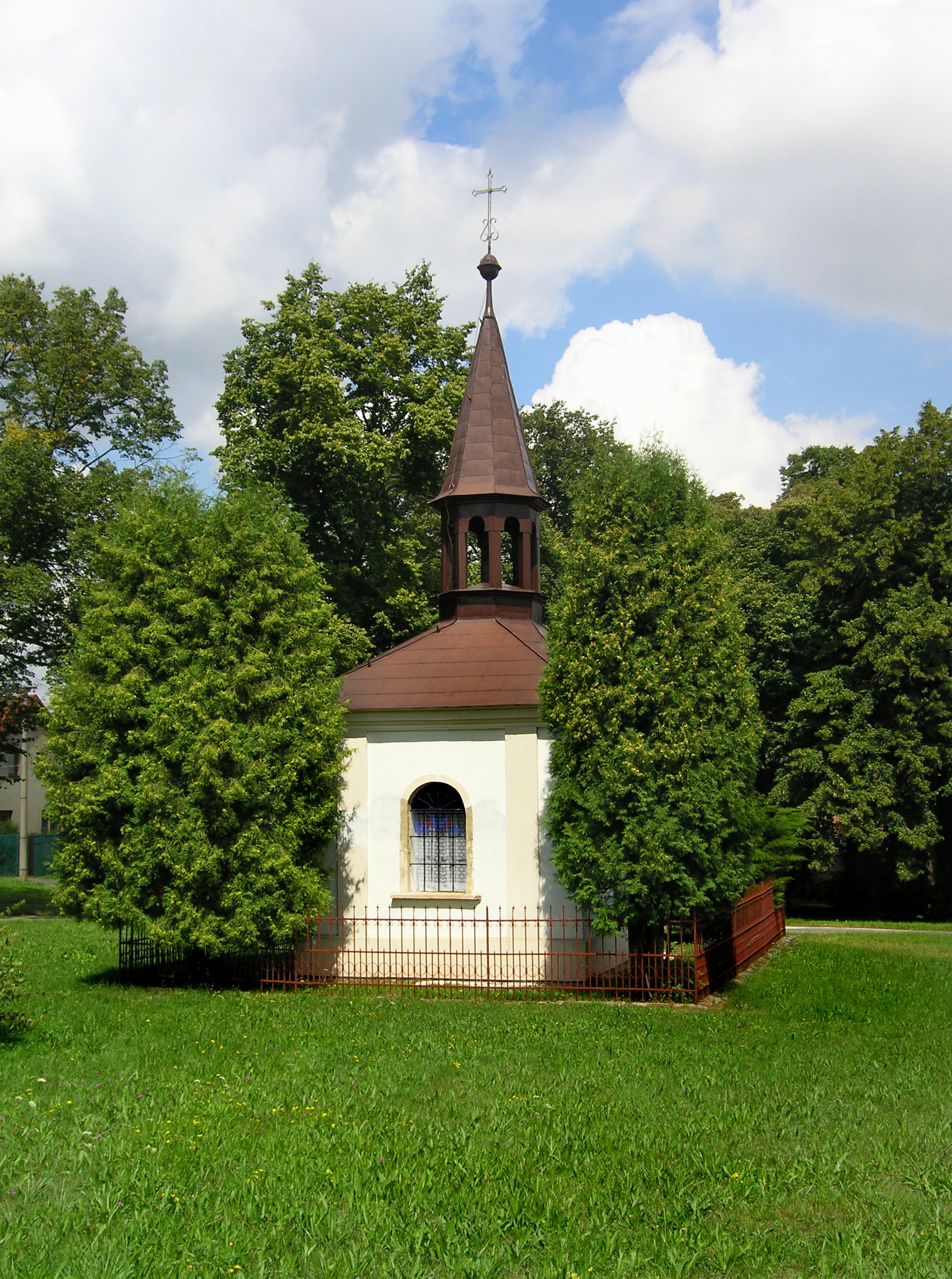 Chapel in Zdeslavice, part of Černíny village, Czech Republic